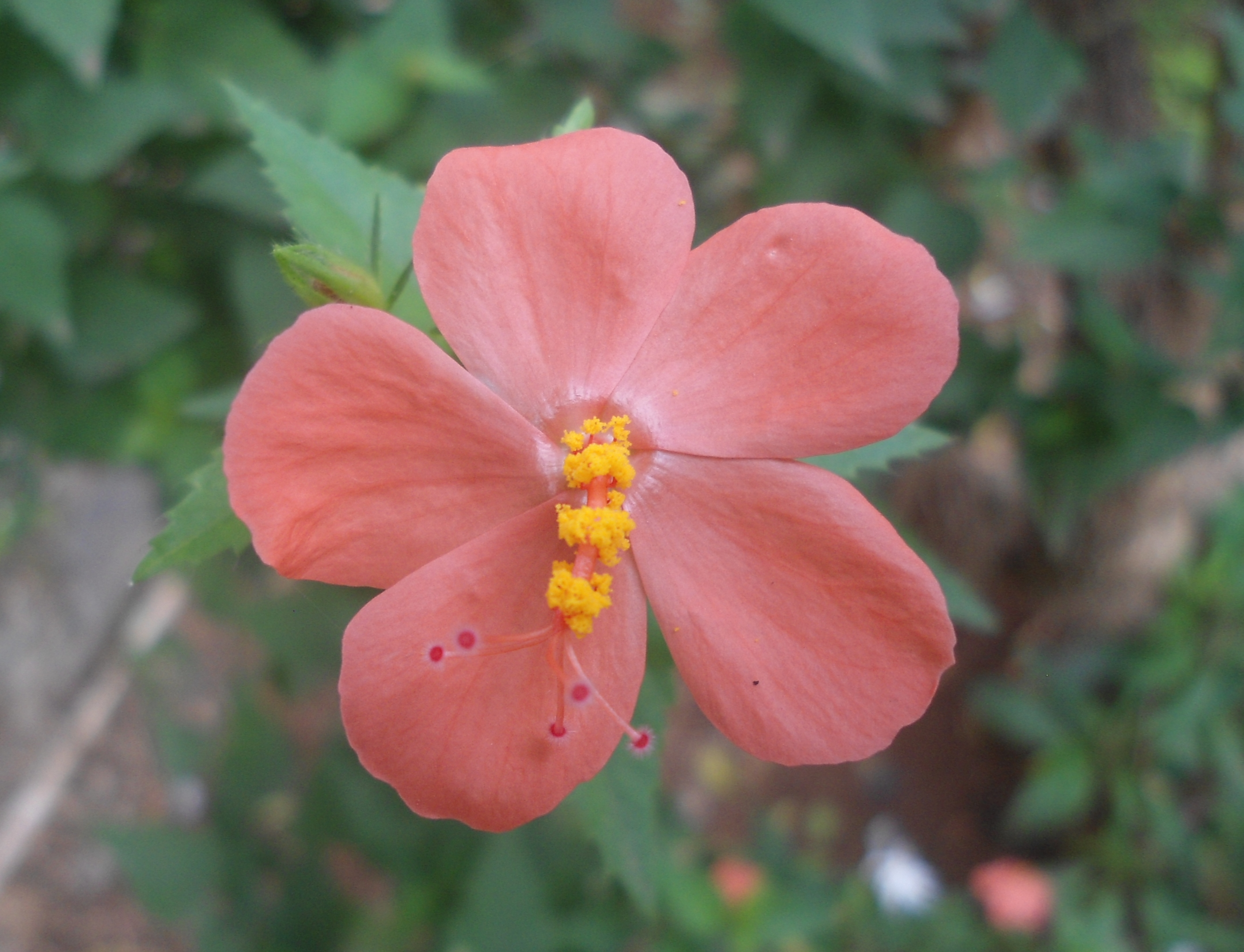 A red lesser mallow flower (hibiscus hirtus) at Yeleswaram, East Godavari district, Andhra Pradesh